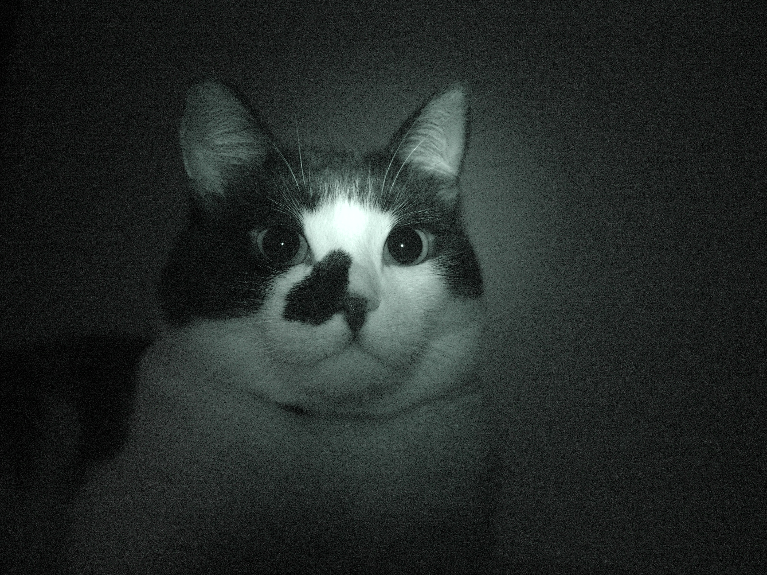 Eyes of a cat, photographed in infrared light.